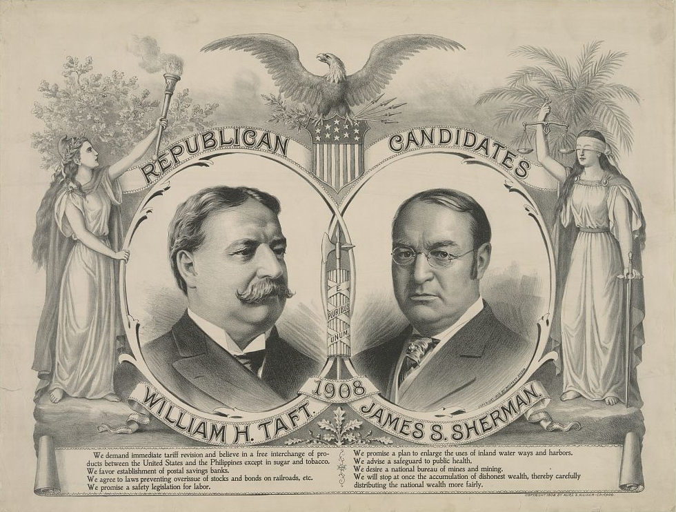 1908 Republican candidates.